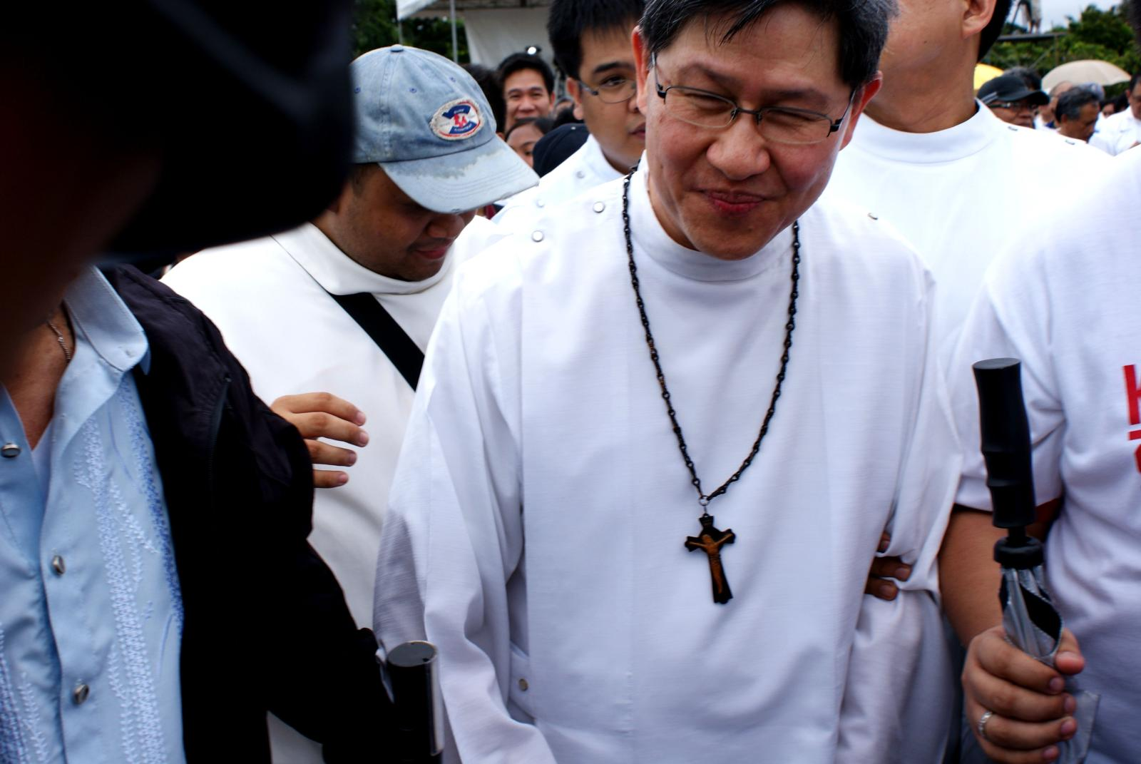 Cardinal Luis Tagle making a suprise appearance at the Million People March protest held in Luneta.